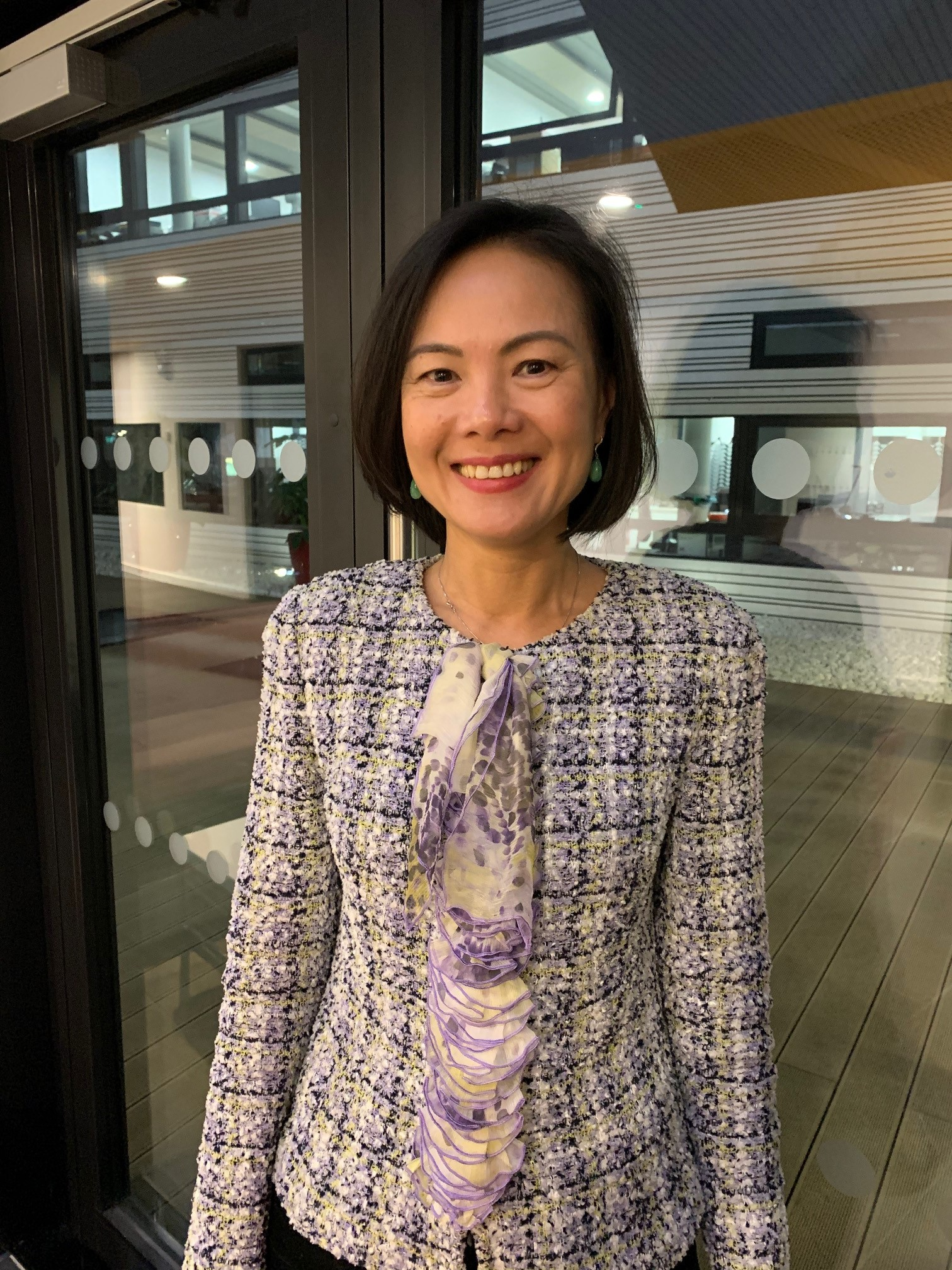 Professor Nguyen visiting the Maxwell Centre at the University of Cambridge